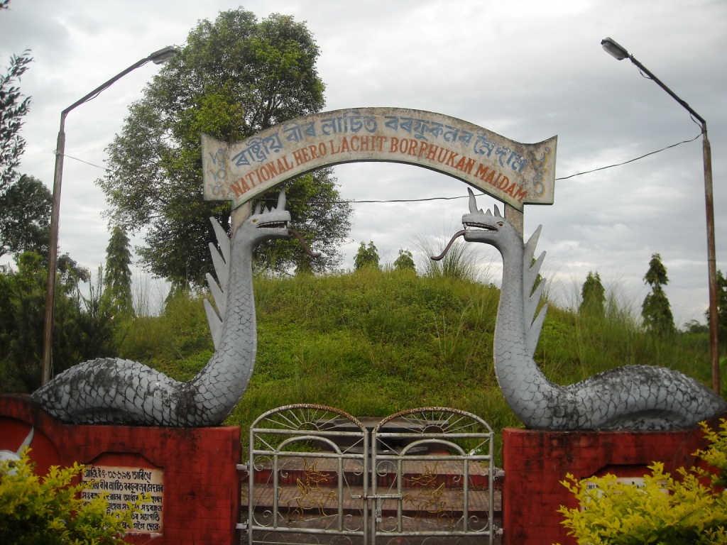 Ahoms led by general Lachit Barphukan defeated the Mughls led by Ramsingh in battle of Saraighat in 1671. He died a year later and his last remains were laid under this tomb (Maidam) constructed by Swargadeo Udayaditya Singha in 1672 at Hoolungapara, 16 kms east of Jorhat city.